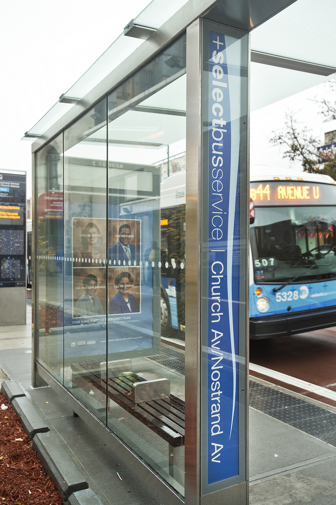 Select Bus Service debuted on the B44 route in Brooklyn, that runs between Williamsburg and Sheepshead Bay, on Sunday, November 17, 2013. The is the waiting area at the Nostrand and Church Avenue stop during the [#//new.mta.info/news-brooklyn-select-bus-service-nostrand-avenue/2013/11/18/select-bus-service-debuts-b44-brooklyn B44 SBS launch]. [#//new.mta.info/news-brooklyn-select-bus-service-nostrand-avenue/2013/11/18/select-bus-service-debuts-b44-brooklyn” [B44 Select Bus Service Debuts Photo: MTA / Patrick Cashin